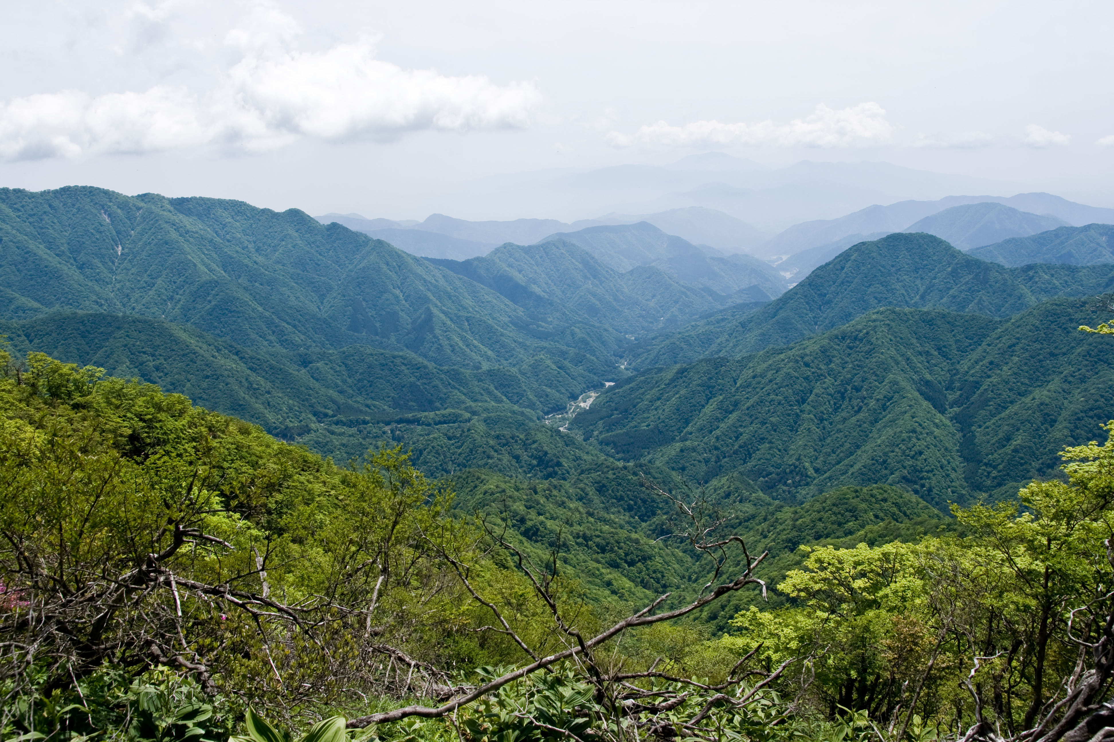 Nakagawa River (中川川 Nakagawa-gawa) at Mts.Tanzawa, Kanagawa, Japan.